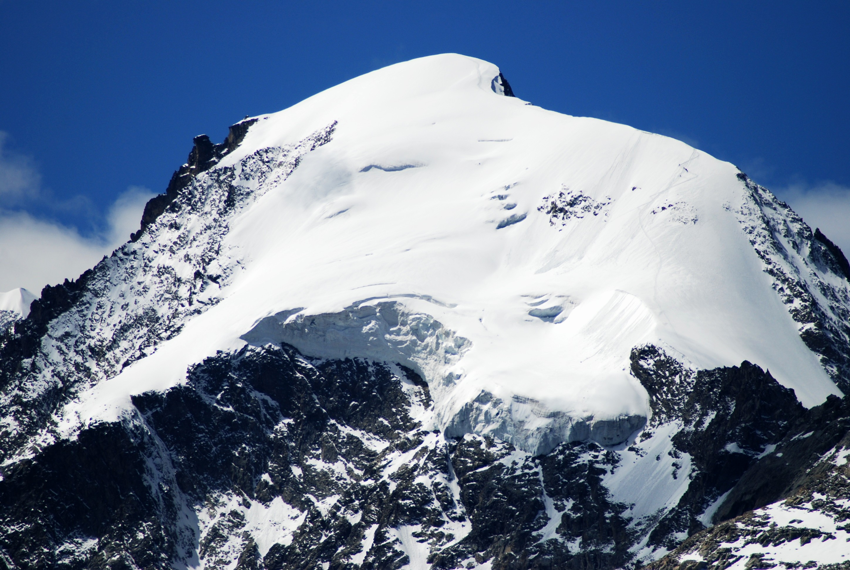 Piz Morteratsch, Engadin